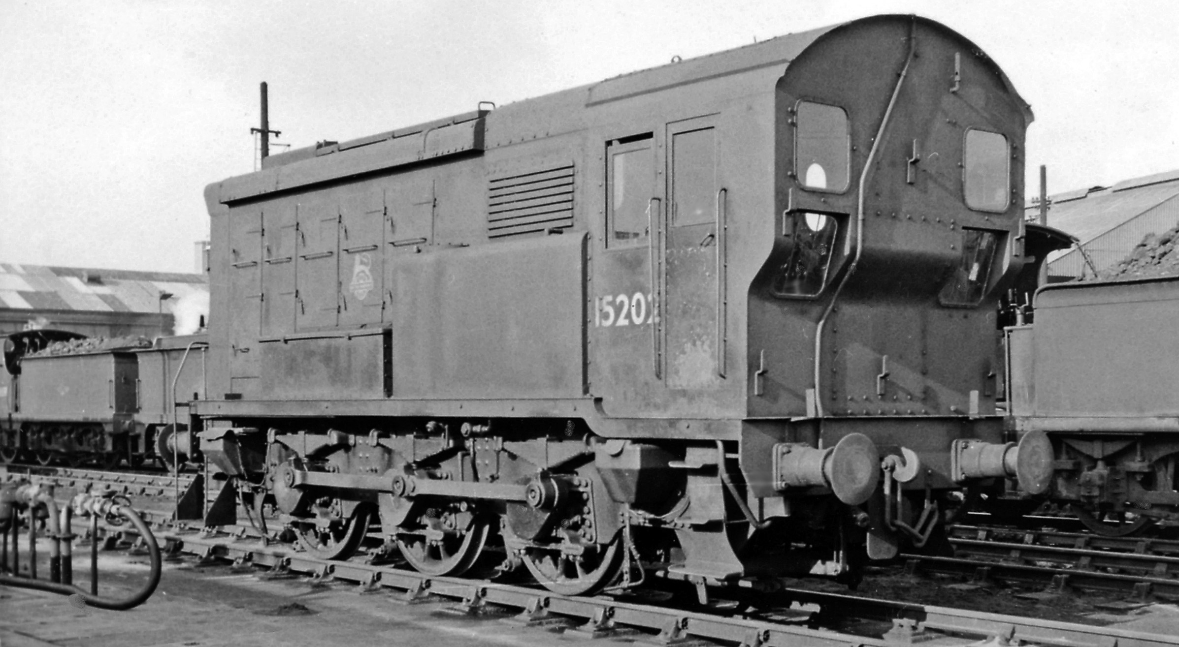 Ex-SR 0-6-0 Diesel-electric shunter at Hither Green Locomotive Depot. View NE in the Locomotive Yard. No. 15202 was one of three pioneer 0-6-0 Diesel-electrics built to Bulleid/English-Electric design for the Southern Railway in 1937. (The type was in use quite extensively on the LMSR, with also a few each on the LNER and GWR before and after the war: another 25 were built by the SR in 1949-52. They were the precursors of the 1,200 Class 08 built for BR up until 1962. (For an example, see TQ3974 : BR Standard 350 hp 0-6-0 Diesel-electric shunter at Hither Green Depot).